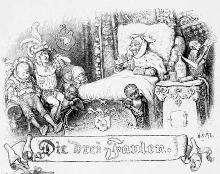 illustration of the Brothers Grimm fairy tale "The Three Sluggards"